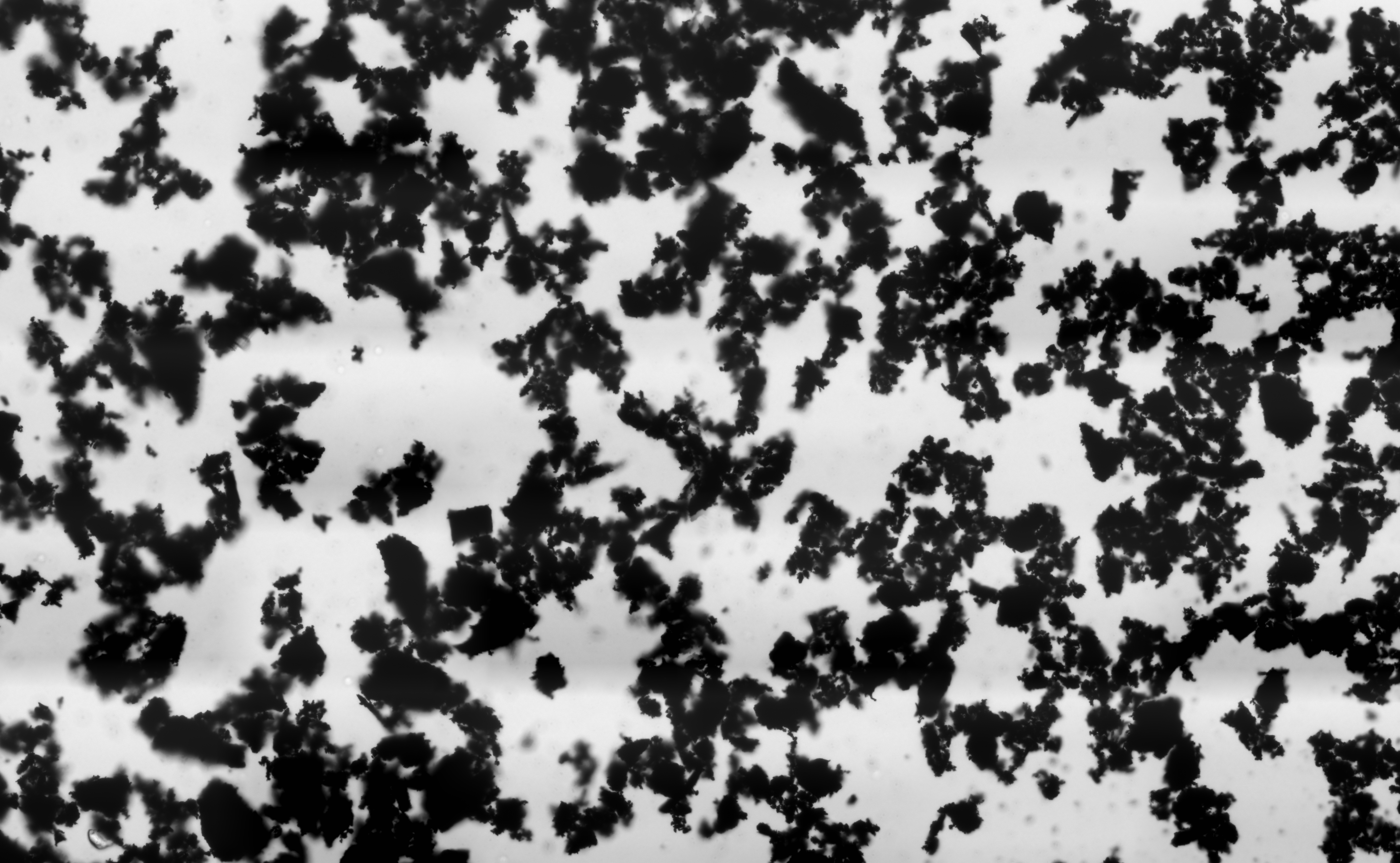 A bright field micrograph of activated charcoal. Notice the fractal-like shape of the particles hinting at their enormous surface area. Each particle in this image, despite being only around 0.1 mm wide, has a surface area of several square metres. This image of activated charcoal in water is at a scale of 6.236 pixels/μm, the entire image covers a region of approximately 1.13 by 0.69 mm.